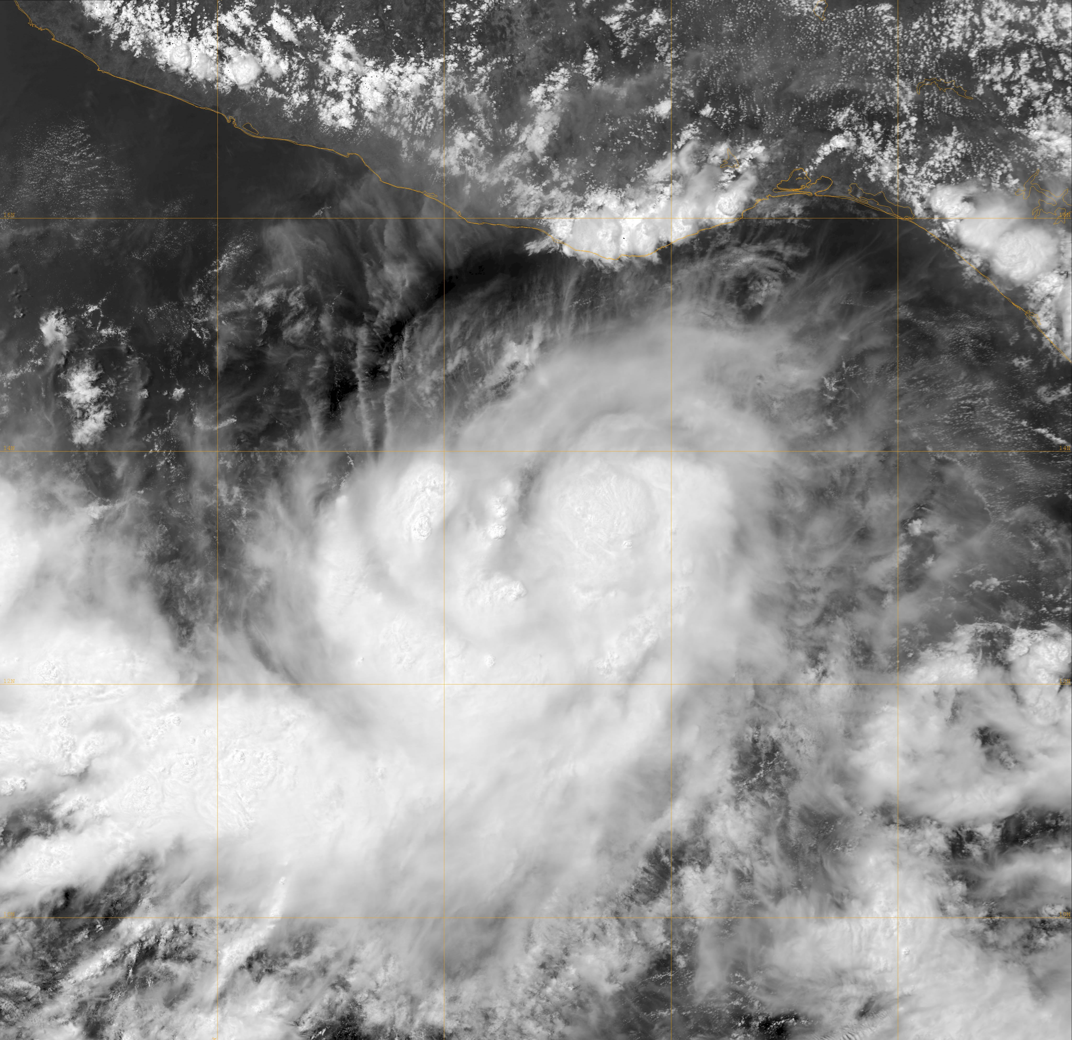 Tropical Storm Barbara as seen from MODIS on NASA's Aqua satellite on May 30 at 2010 UTC.